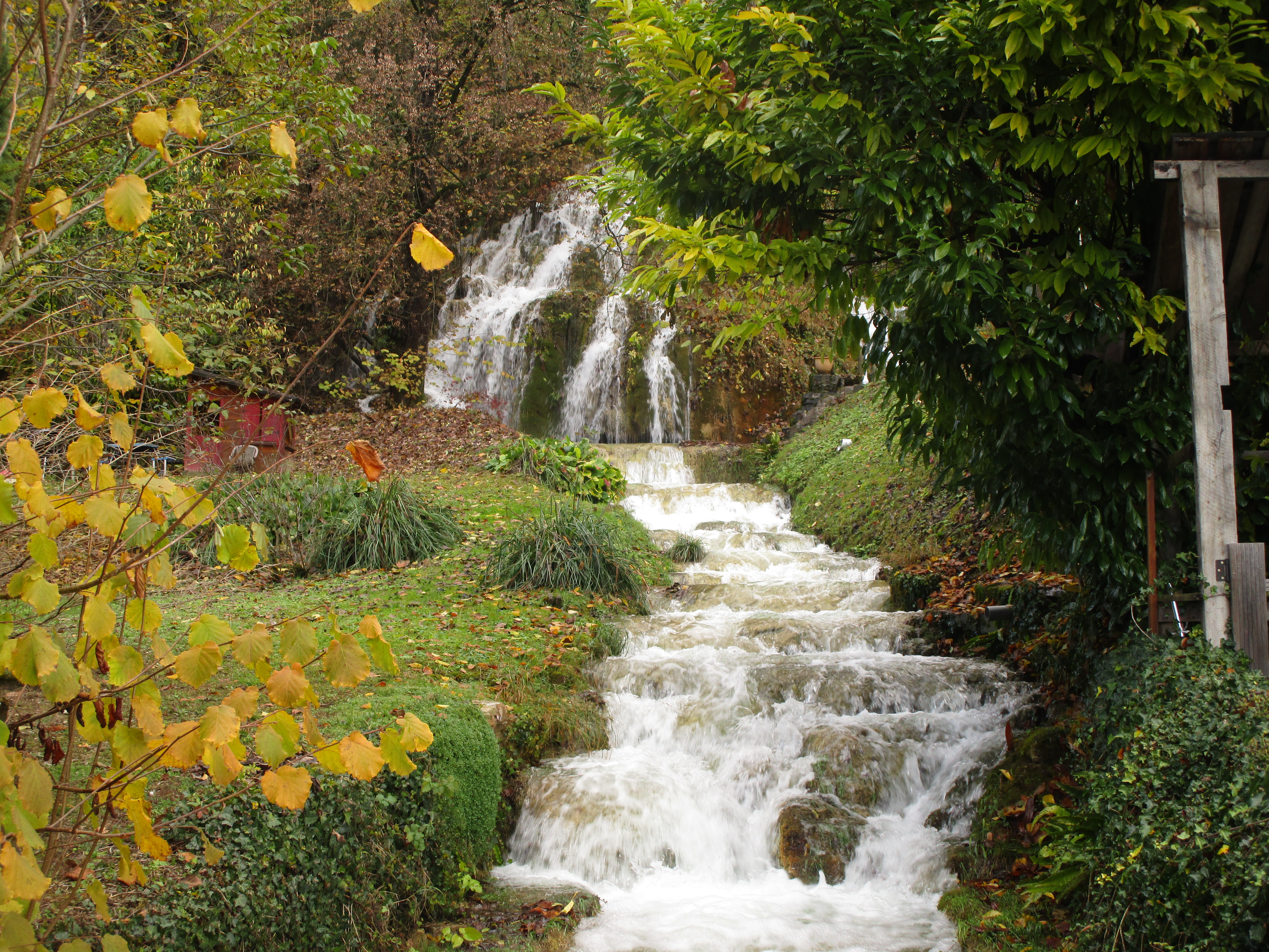 The waterfall La Furieuse in Challes-les-Eaux on November 11, 2016.